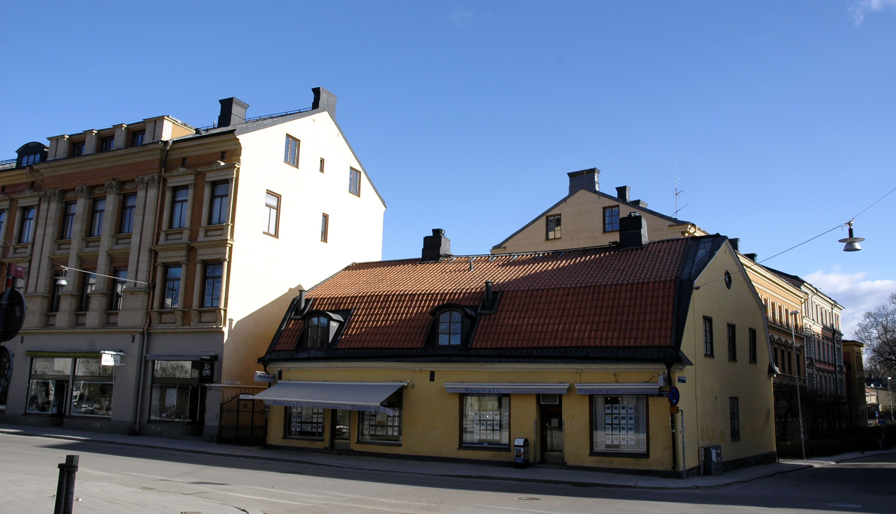 Photo of square block Ånäbben in central Uppsala, Sweden